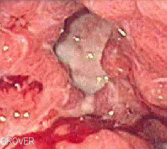 Endoscopic image of gastric ulcer, biopsy proven to be gastric cancer. Released into public domain on permission of patient -- Samir धर्म 08:44, 7 June 2006 (UTC)